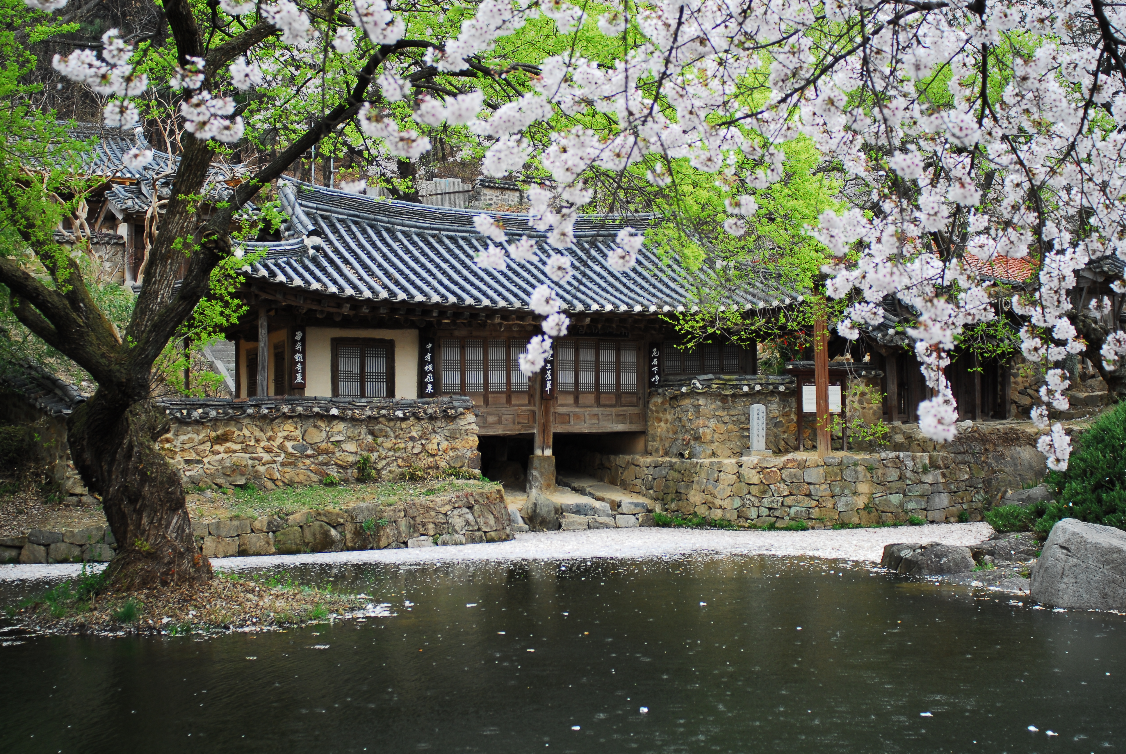 The rain keeps people away in droves today. Ordinarily, this place is crawling with humanity.